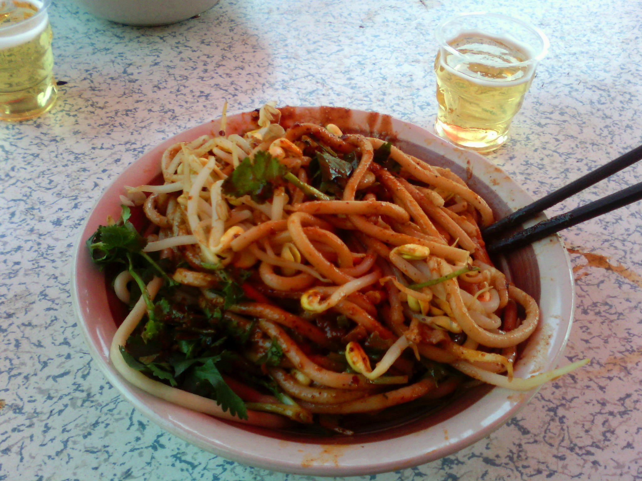 Ge La Tiao (格拉条), a special thick noodle dish from Fuyang city in Anhui province, China.